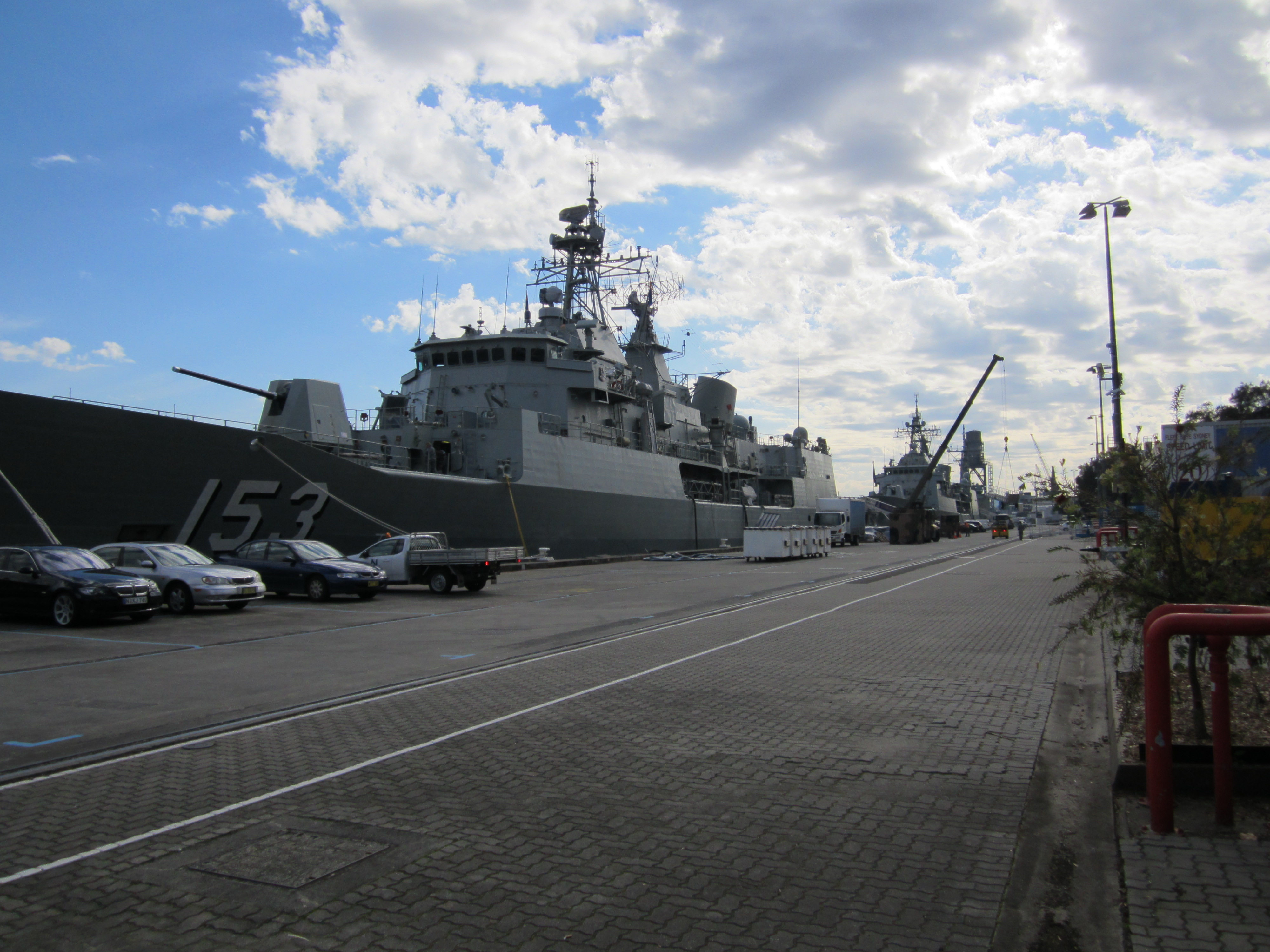 HMAS Stuart and another Anzac Class frigate at Fleet Base East